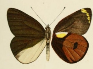 Ann. Mag. nat. Hist. (8) 4 : 177, pl. 6, f. 2: Delias pratti